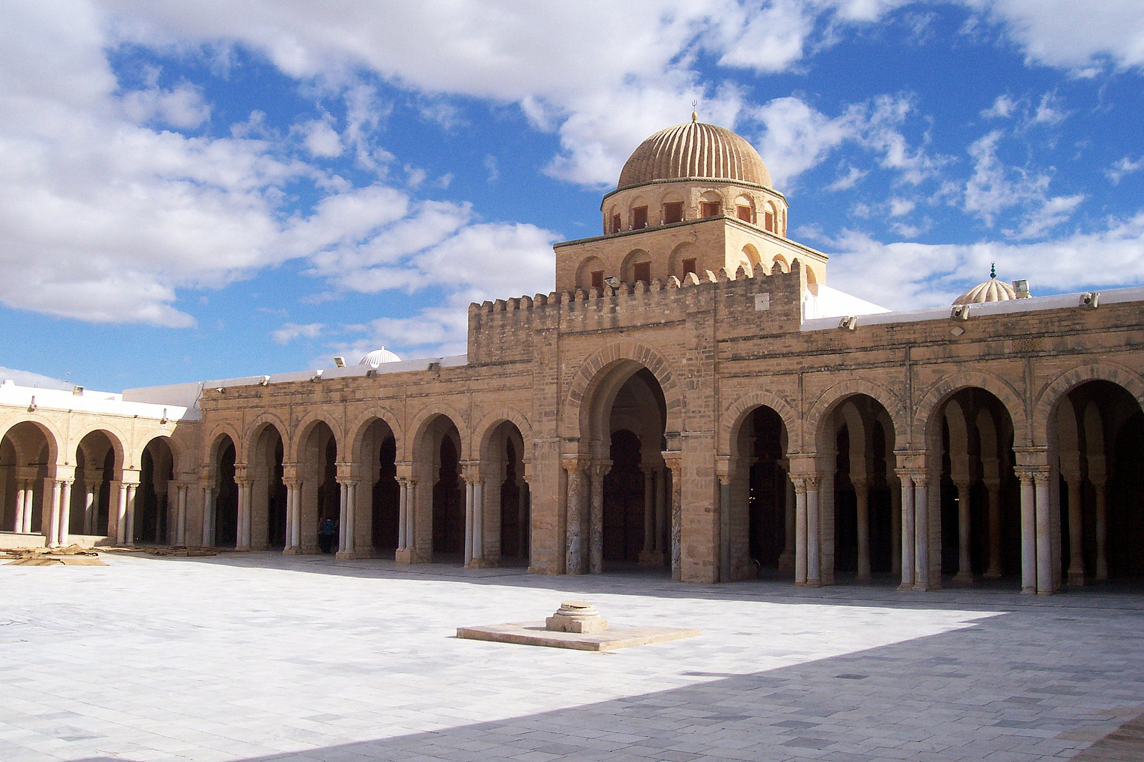 Part of the courtyard of the Great Mosque of Kairouan, with the main prayer hall.